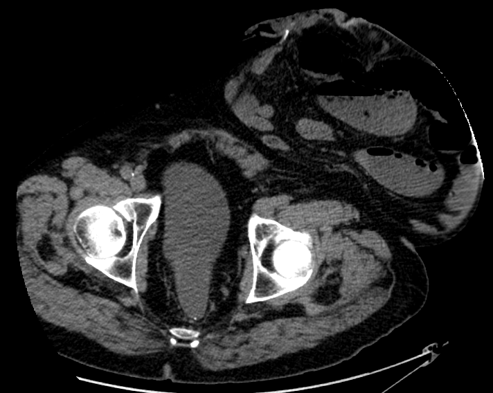 CT scan of a 83 year old man who had a colostomy after surgery for Crohn's disease, and who developed a massive parastomal hernia. The hernia is seen at upper left in the image and is containing intestines. Uploaded after written consent from the patient.